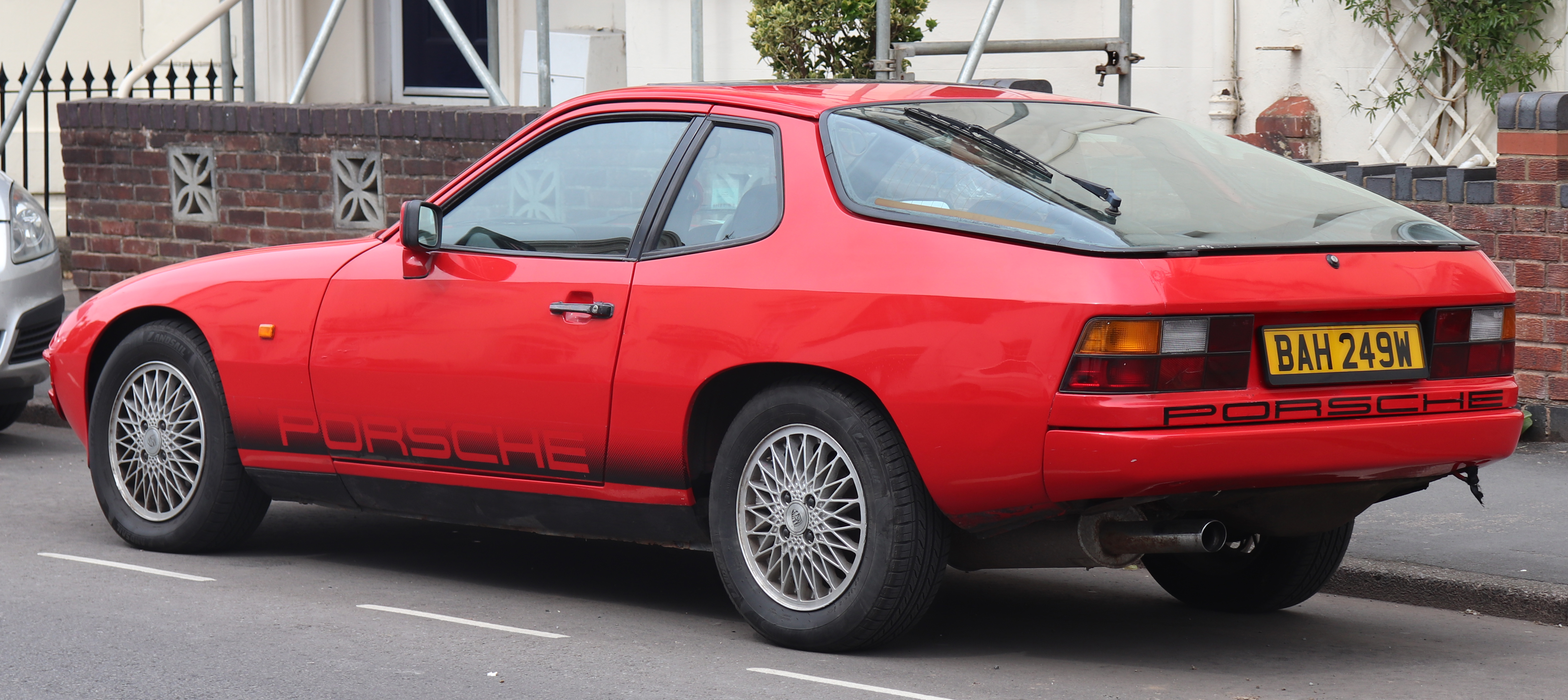 1981 Porsche 924 2.0 Rear Taken in Leamington Spa